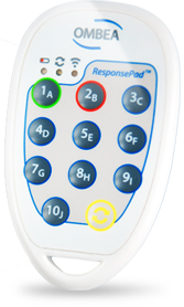 Audience response keypad